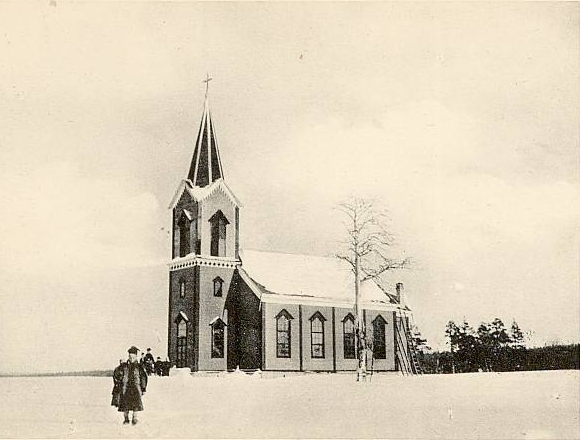 Inari old church in Finland